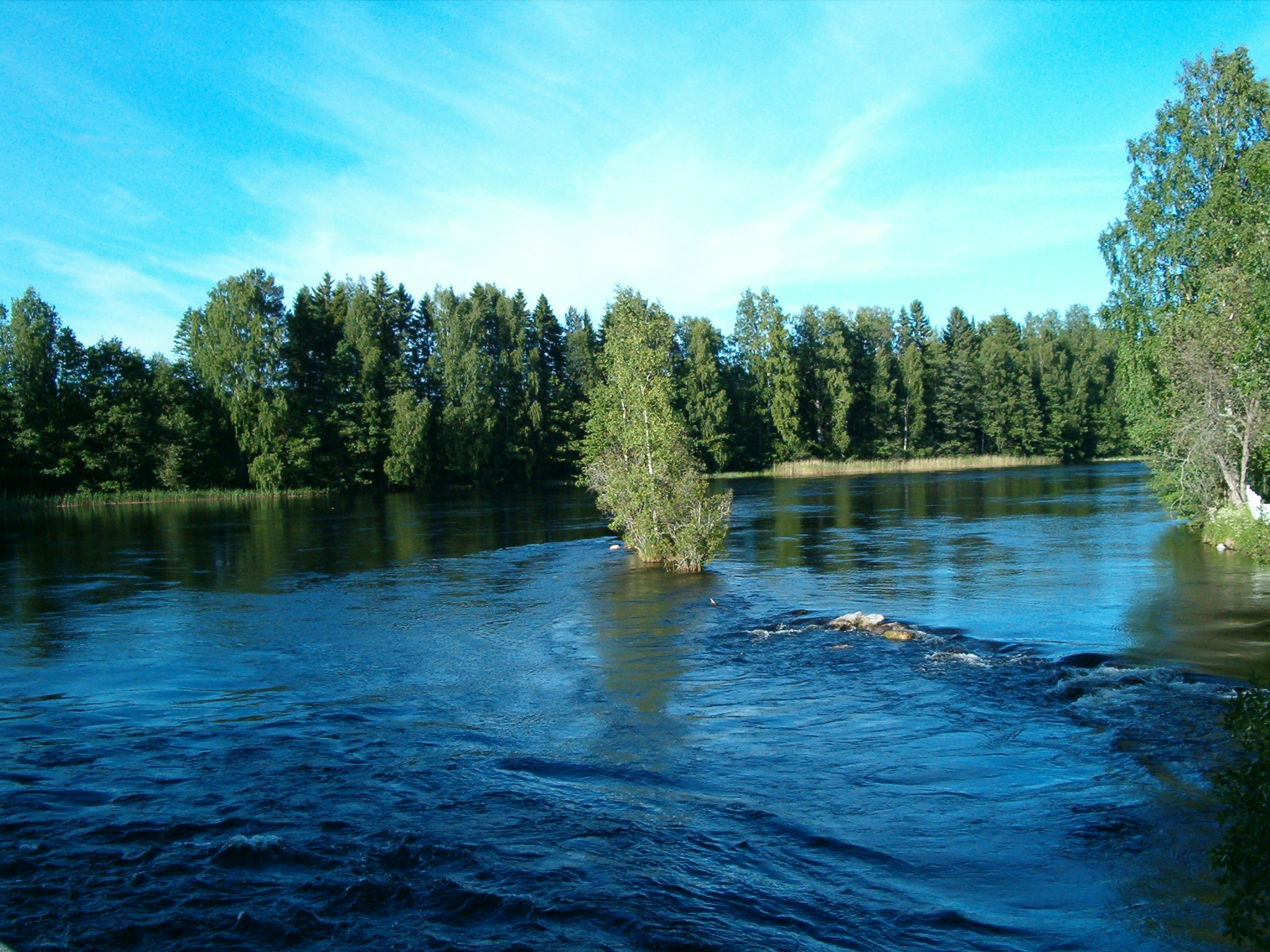 Small part of Kermankoski rapids in Heinävesi, Finland.